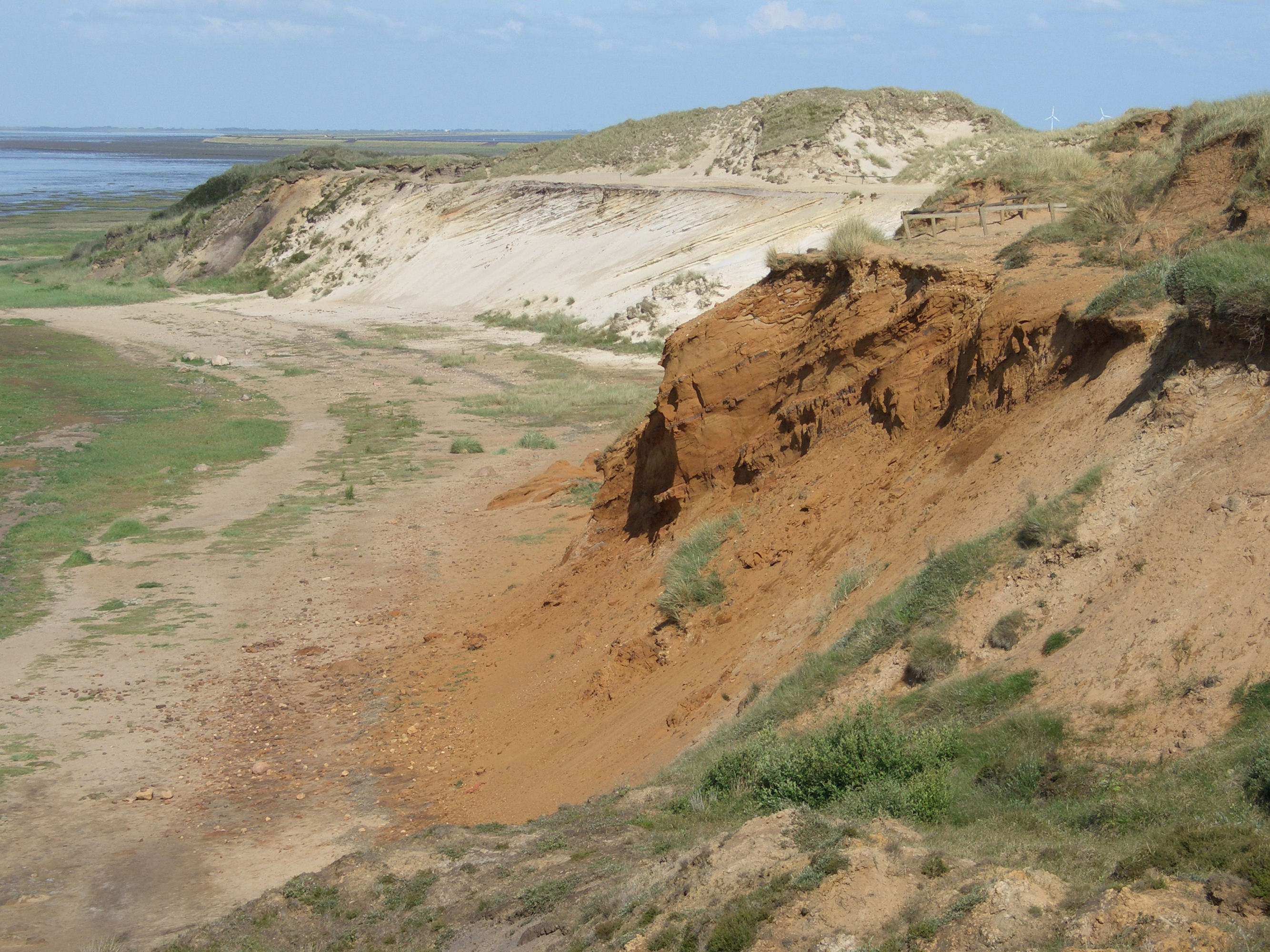 Morsum-Cliff in Morsum, Sylt